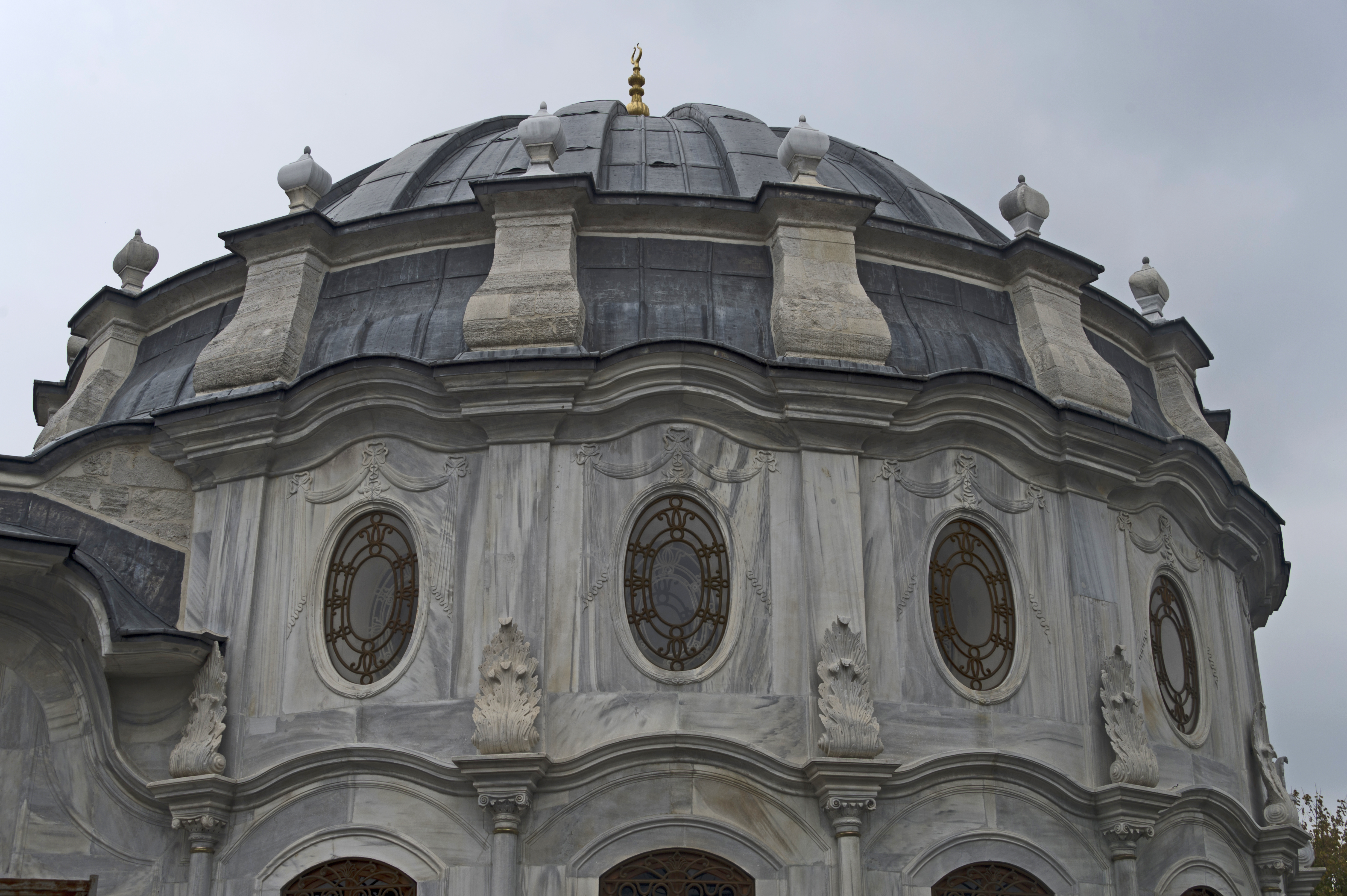 Nakşidil Valide Sultan's mausoleum is in the style of baroque-Empire, it's near the Fatih Mosque. The türbe has 14 sides, with unique oval windows in the upper row of two rows of windows. With its slender (too slender) columns Strolling through Istanbul considers it to be a very original and entertaining building. In 2018 it was possible to visit after a restopration, through a gate at the Fatih Türbesi Sokak. To the right side of the mausoleum's courtyard another türbe was being restored, that of Gülüstü Valide Sultan, mother of Mehmet VI Vahdettin, the last Ottoman Sultan. The dome.